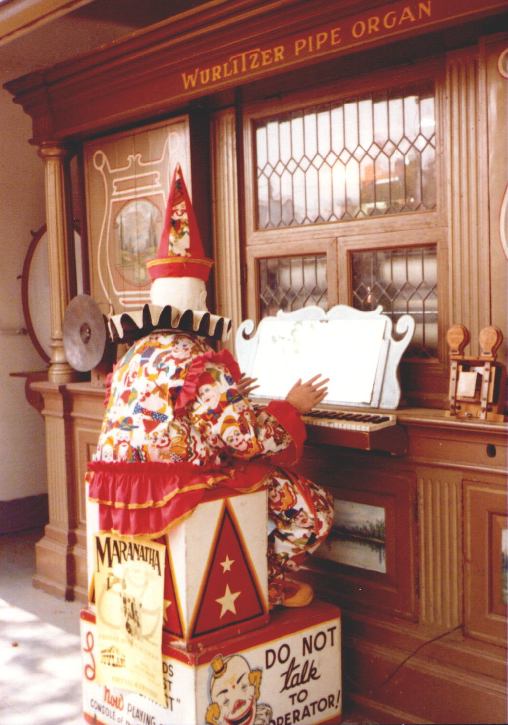 Wurlitzer organ at Joyland amusement park, with Louie the clown at the keyboard. "The park [Joyland Amusement Park (Wichita, Kansas)] had a Mammoth Military Band Organ, also known as a Wurlitzer Style 160, which was the largest of Wurlitzer’s early models. It was built around 1905 by the DeKleist Musical Instrument Works and was sold by the Rudolph Wurlitzer Company. It contained 486 wood and brass pipes and used two perforated paper music rolls, producing the effect of a military brass band of 20 to 25 musicians. This particular model was designed primarily for the roller rink industry. In 1915, it was taken back to the Wurlitzer factory and modified into a Wurlitzer Style 165. ..."— English Wikipedia article "Joyland Amusement Park (Wichita, Kansas) § Fairground organ"